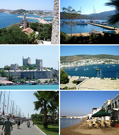 Collage of Bodrum